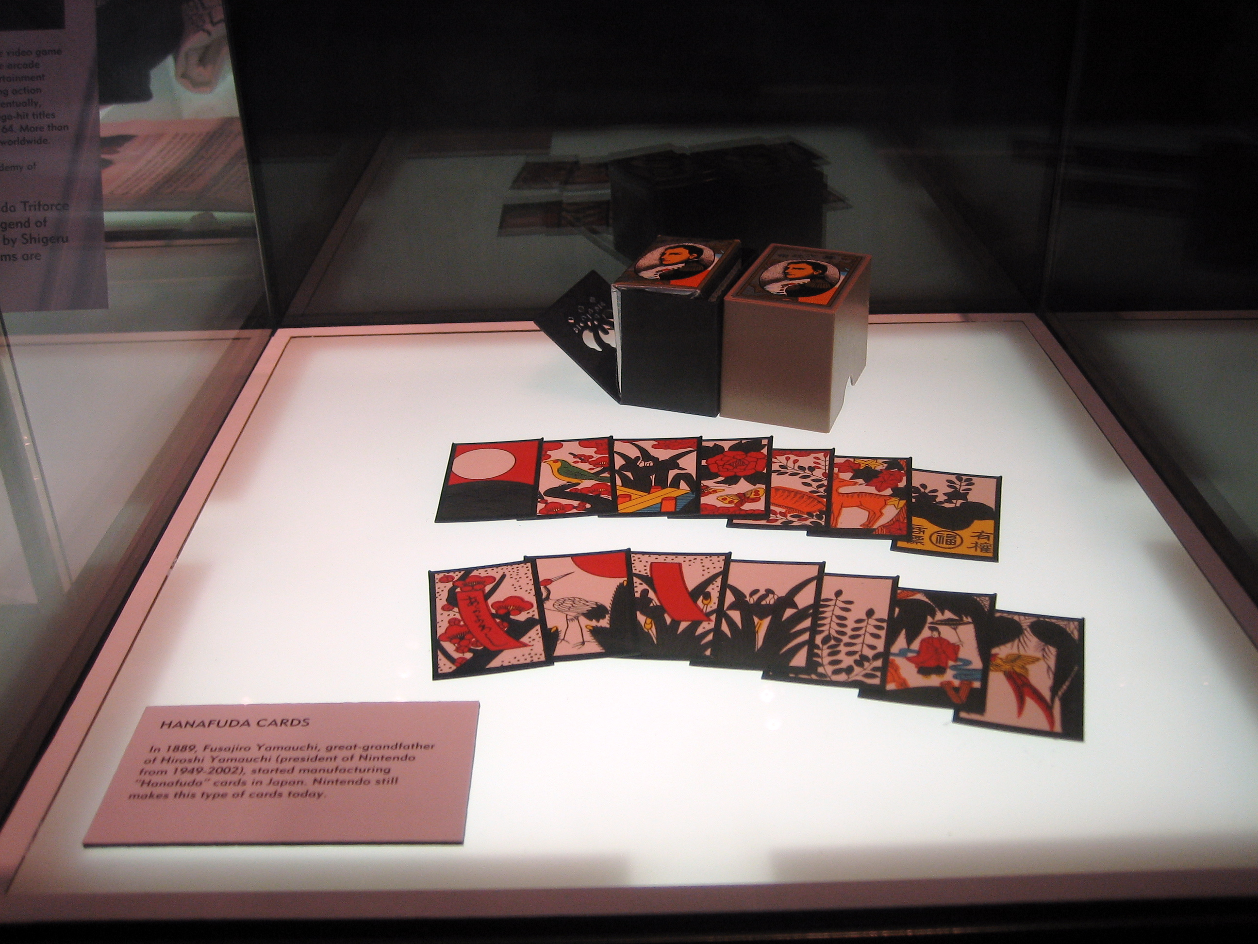 The hanafuda cards that Nintendo used to sell before getting into toys and electronic games.Nintendo Hanafuda